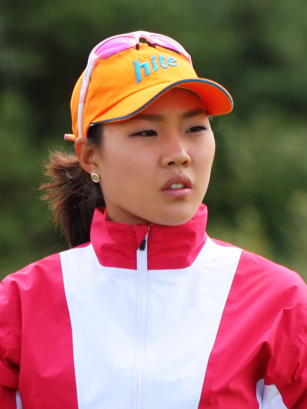 SOUTHPORT, UNITED KINGDOM - JULY 28: Seo Hee Kyung of South Korea on the 10th tee during final practice round before 2010 Ricoh Women's British Open held at Royal Birkdale on July 28, 2010 in Southport, England. (Photo by Wojciech Migda)